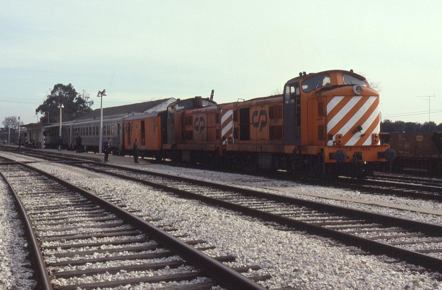 12 November 1993. Having taken train 5509, 13:15 Entroncamento to Portalegre with just 1434, on arrival, 1454 was coupled up after running round. Seen here before departure on the return working, 16:15 Portalegre to Entroncamento.